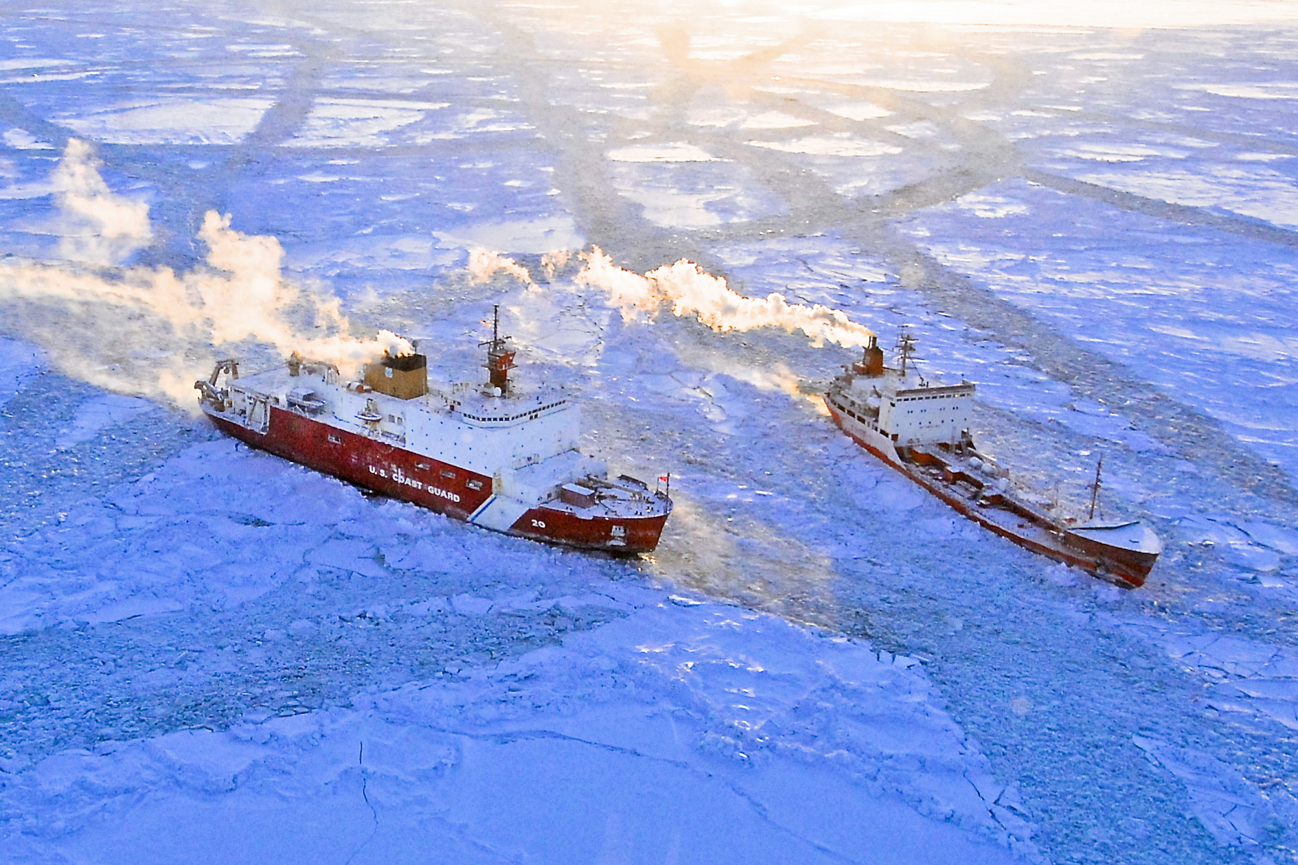 The U.S. Coast Guard Cutter Healy approaches the Russian-flagged tanker Renda while breaking ice around the vessel in the Bering Sea 97 miles south of Nome, Alaska, Jan. 10, 2012.